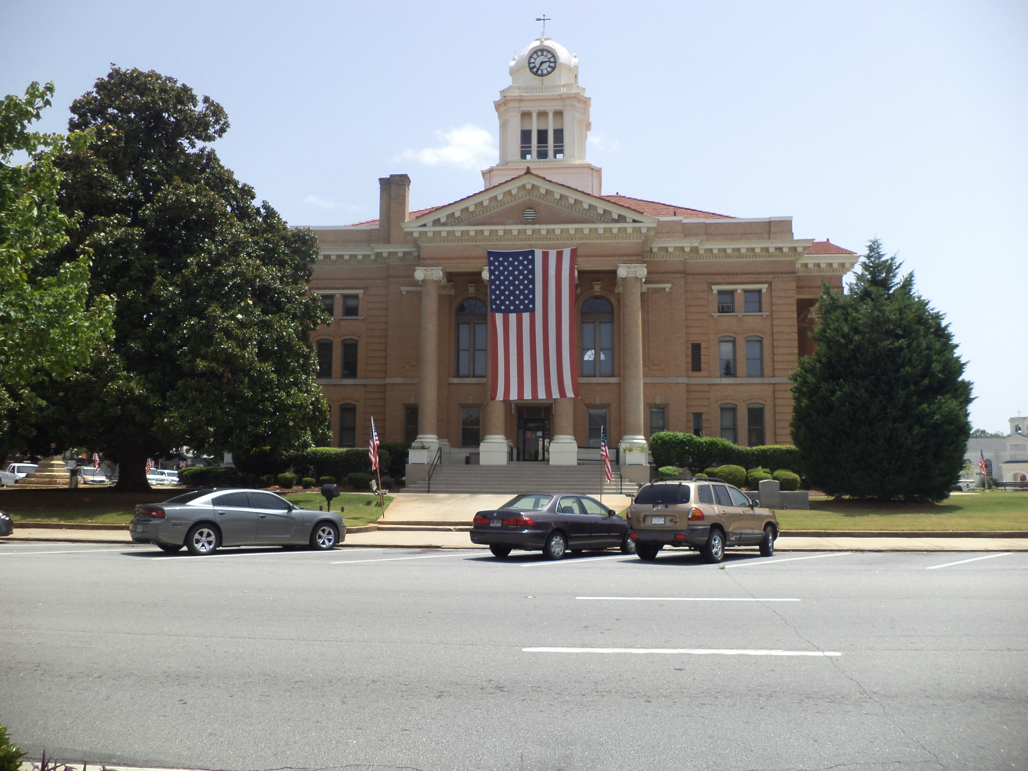 Upson County Courthouse (North face), Thomaston, Upson County, Georgia